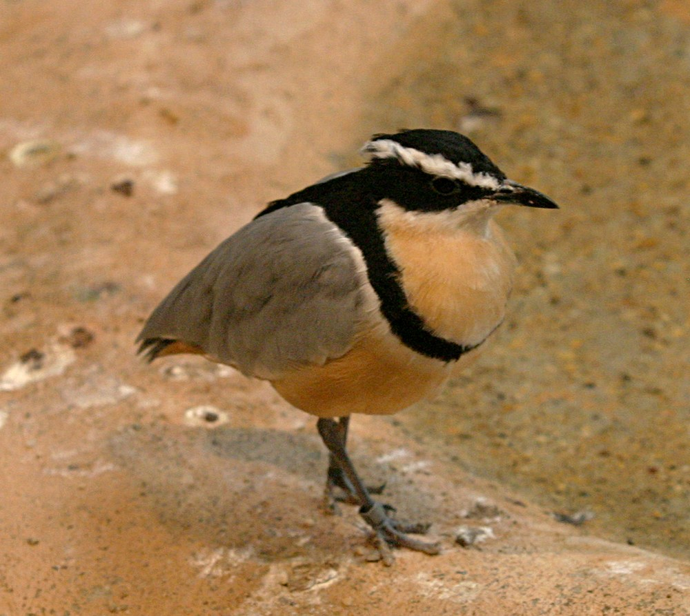 Egyptian Plover at the Milwaukee County Zoological Gardens in Milwaukee, Wisconsin.